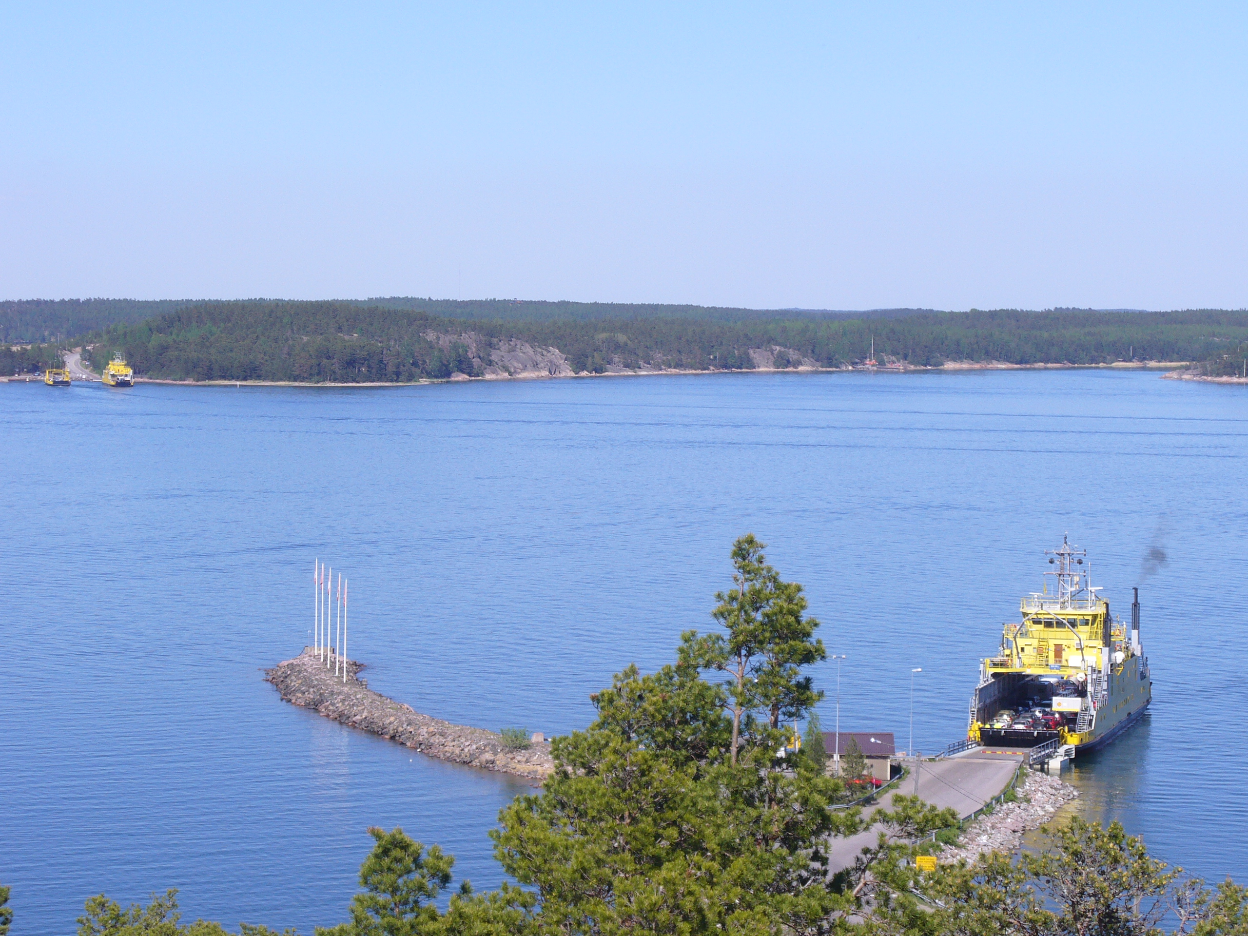 A ferry departing from Kalvbergen, Nagu, Finland towards Skagsudden, Pargas, Finland